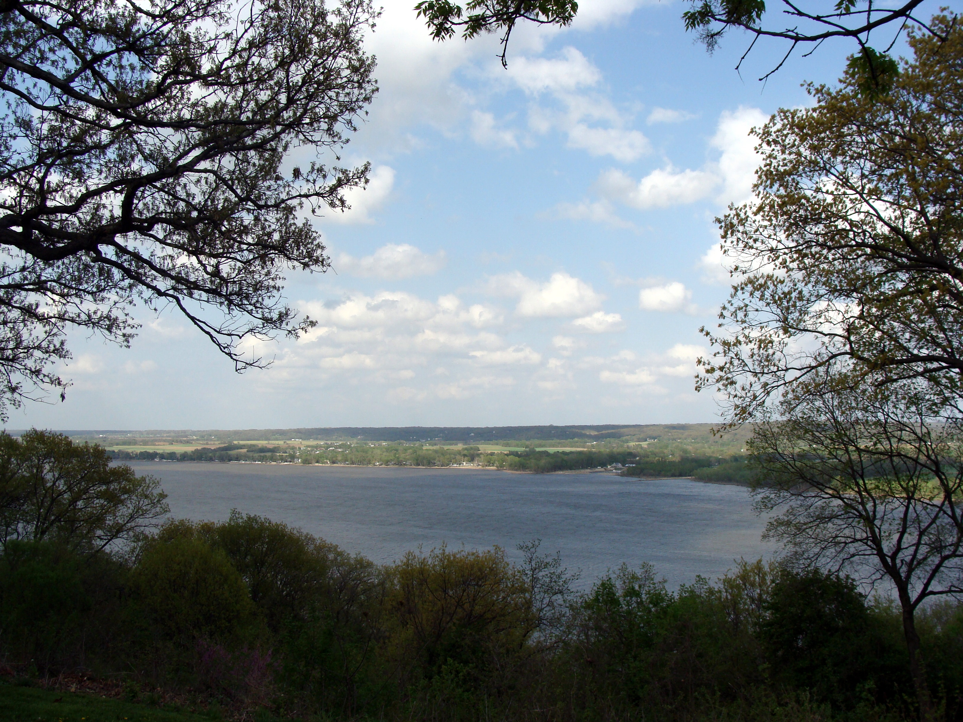 Photo of Peoria Heights' Grandview Drive